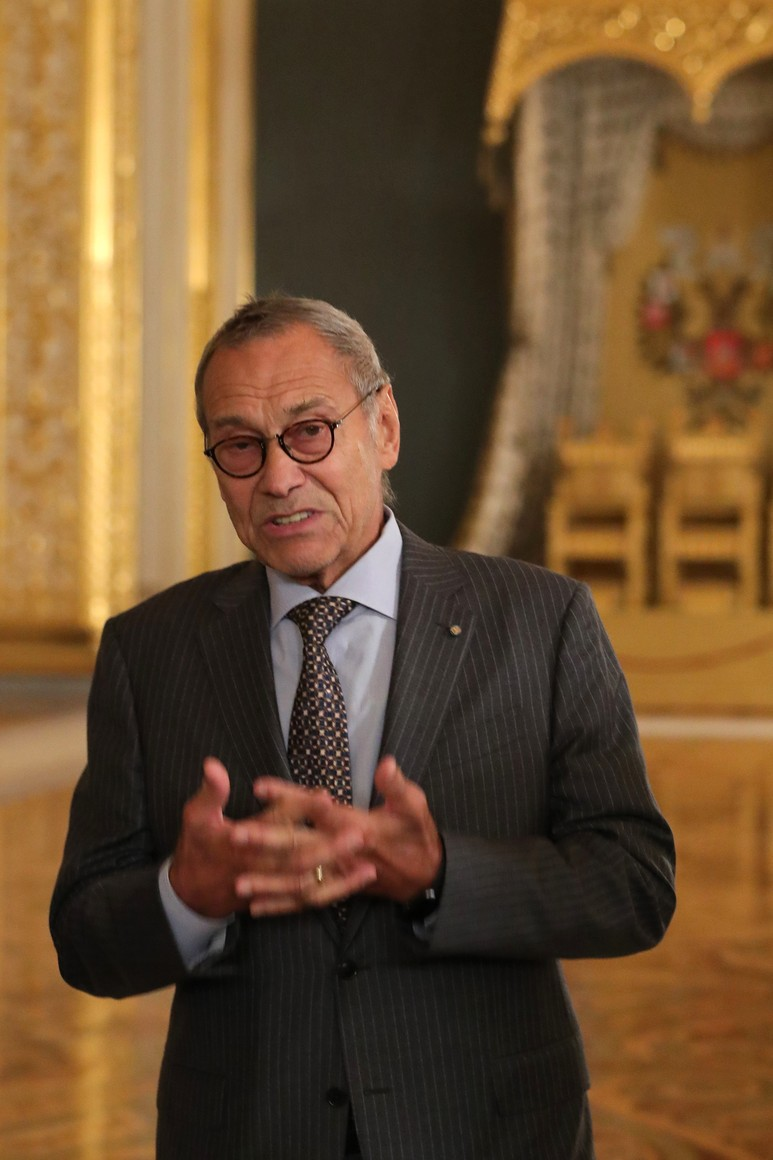 Andrei Konchalovsky